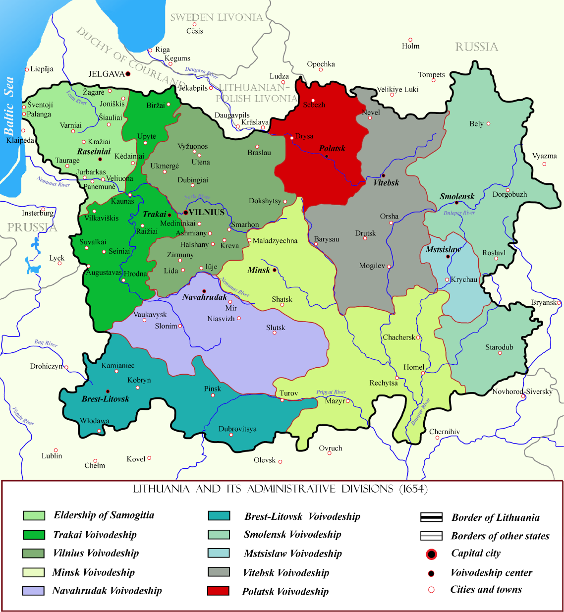 Polatsk Voivodeship (red) within Lithuania in the 17th century